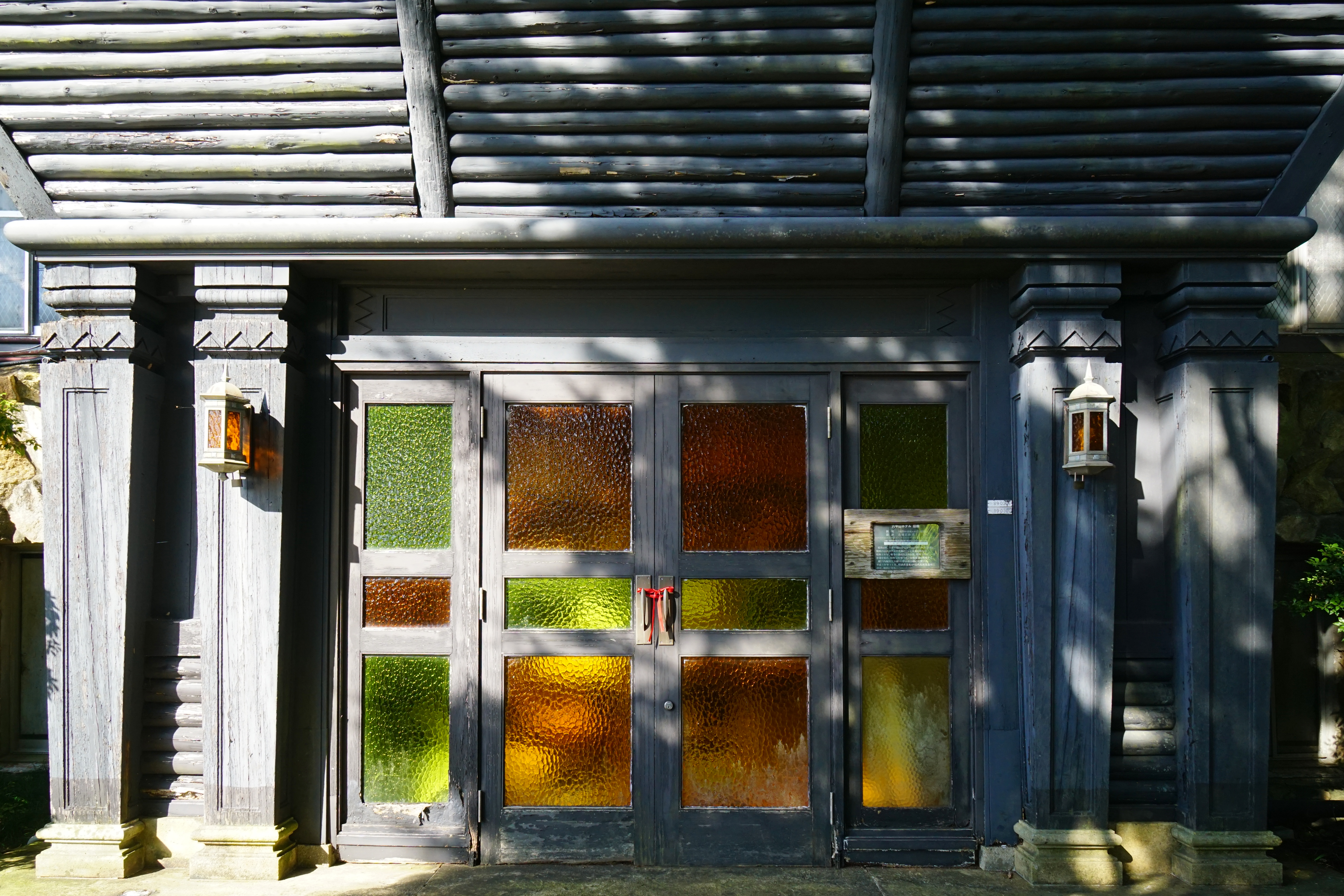 Rokkosan Hotel in Kobe, Hyogo prefecture, Japan